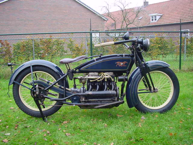 Toestemming van Yesterdays Antique Motorcycles ( categorie:afbeelding motorfiets